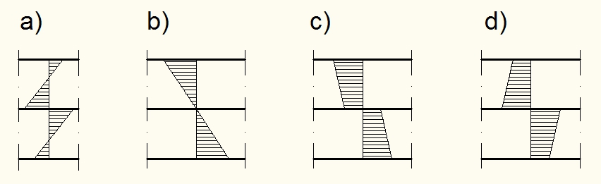 Stresses in a thermo bimetal element: a) heated, b) bent c), d) - heated and bent in the same time.